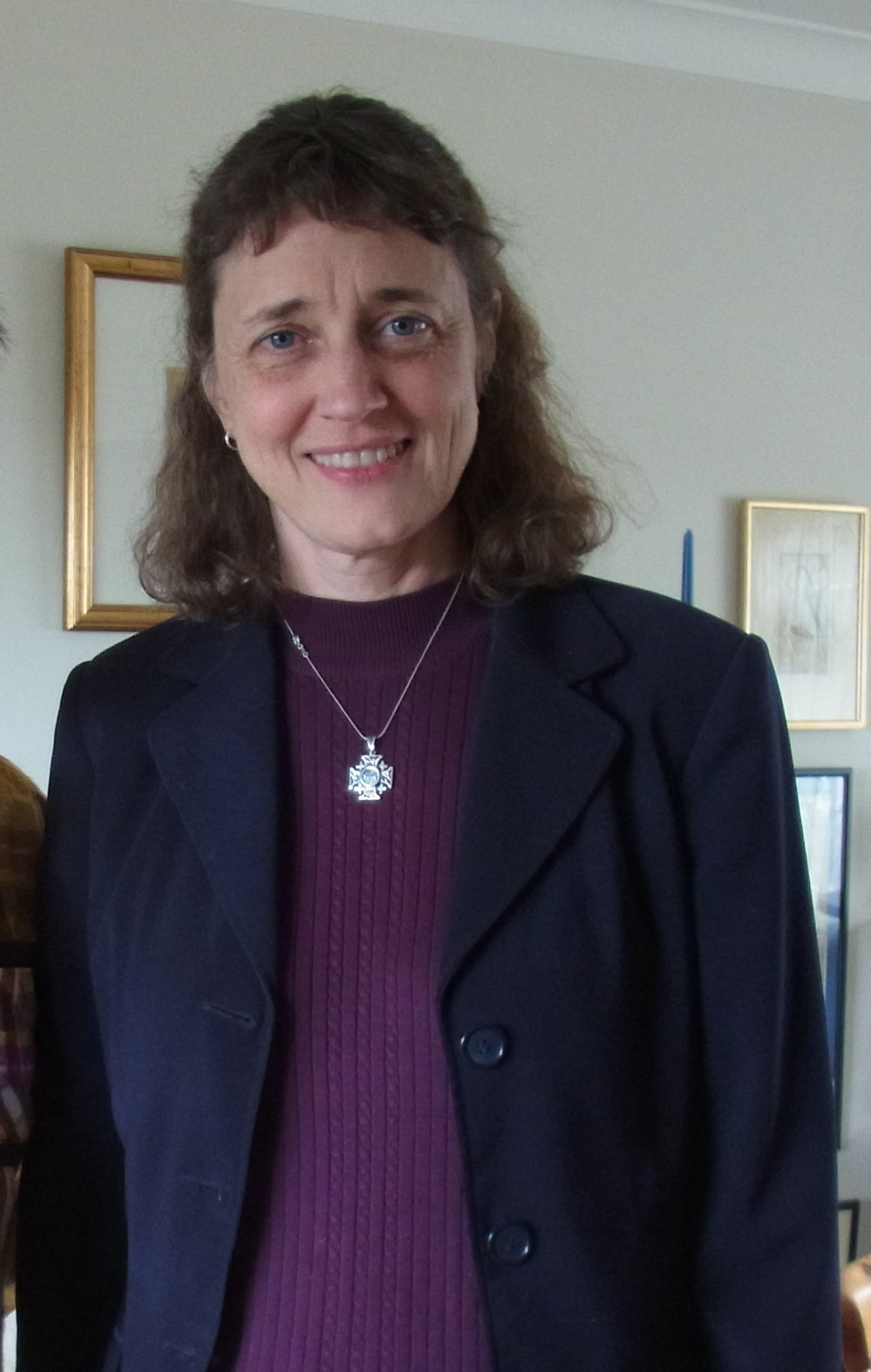 Jennifer Wiseman in Cambridge, March 2013